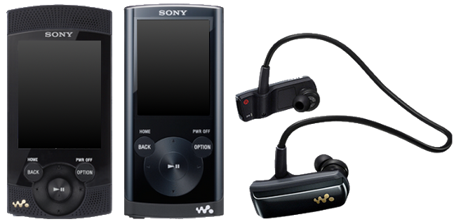 Line up of Sony Walkman series been sold in USA (2011). From the left S, E, W series.